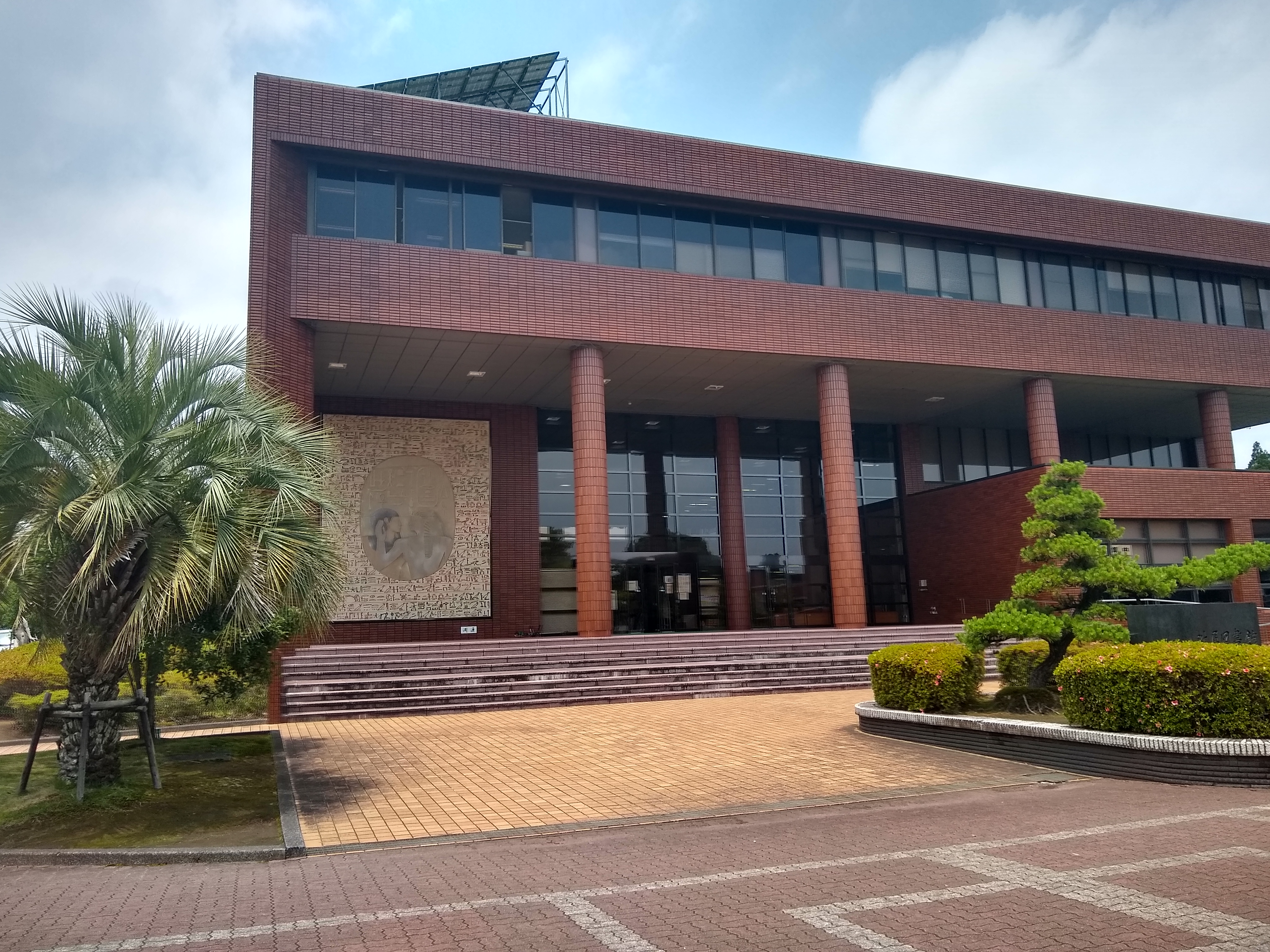 A picture taken outdoors in front of the University of Miyazaki Kibana campus library.